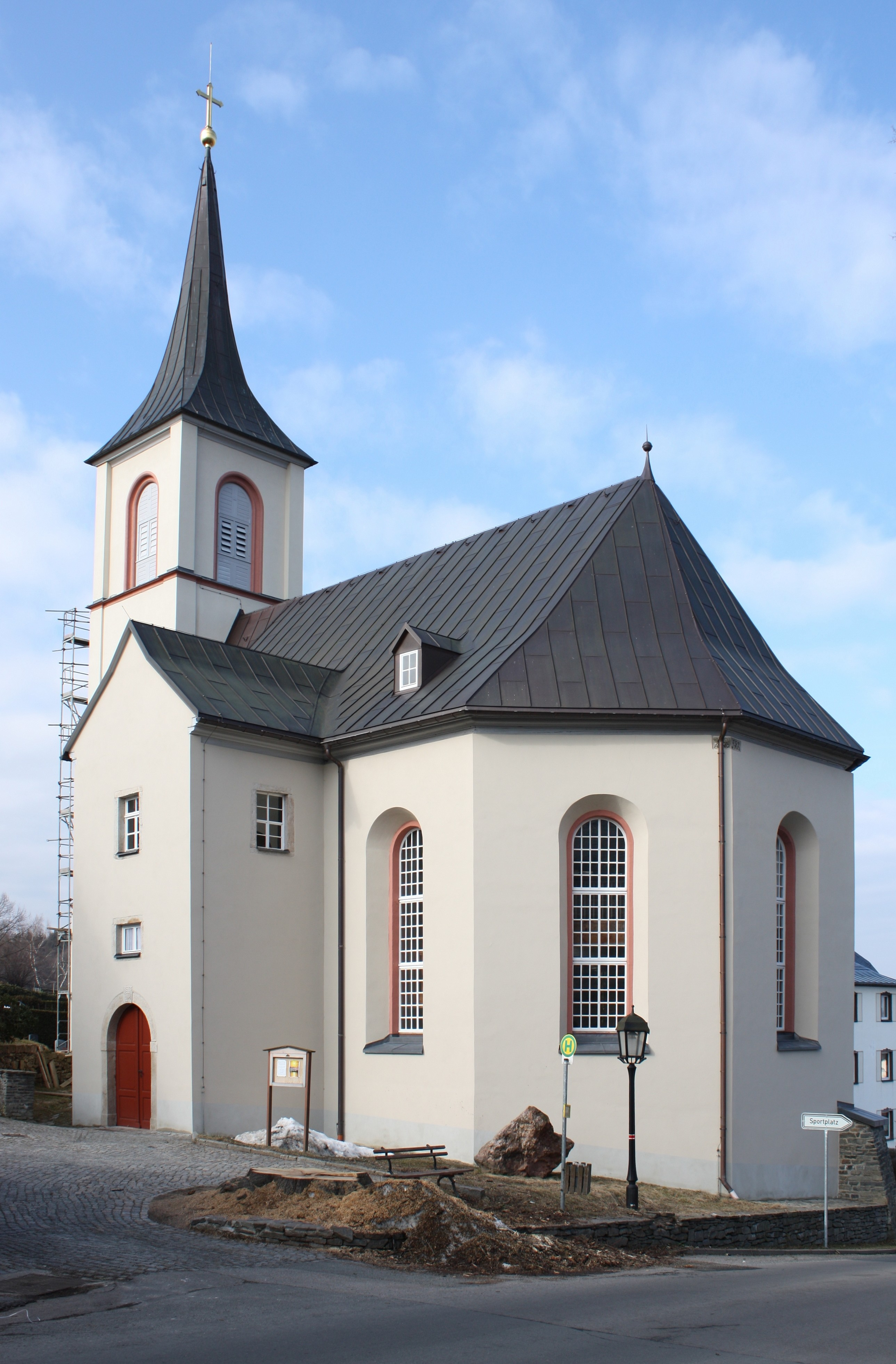 Crandorf Lutheran Church.